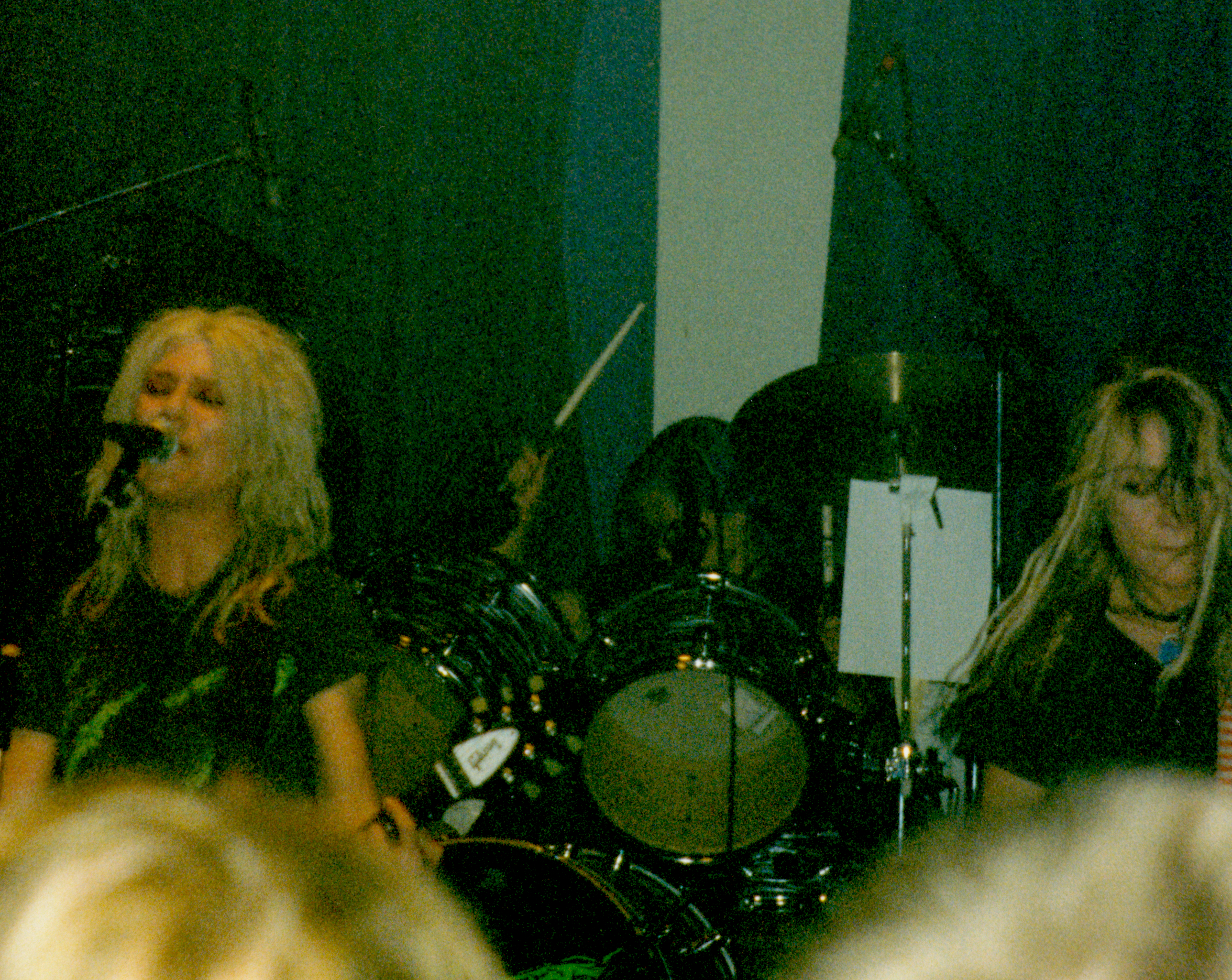 L7 at the Emerson Theatre in Indianapolis, IN circa 1997